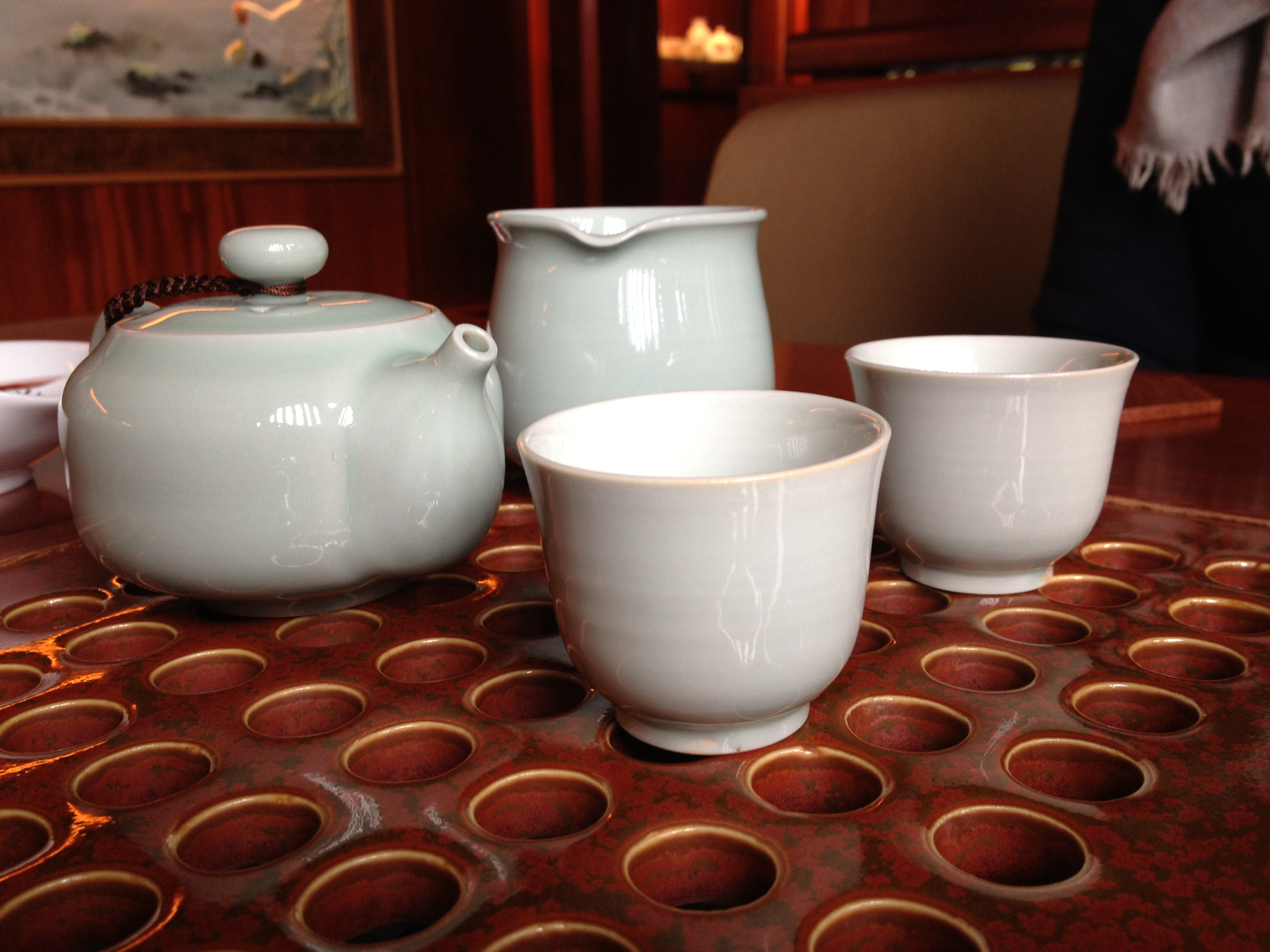 Chinese tea set